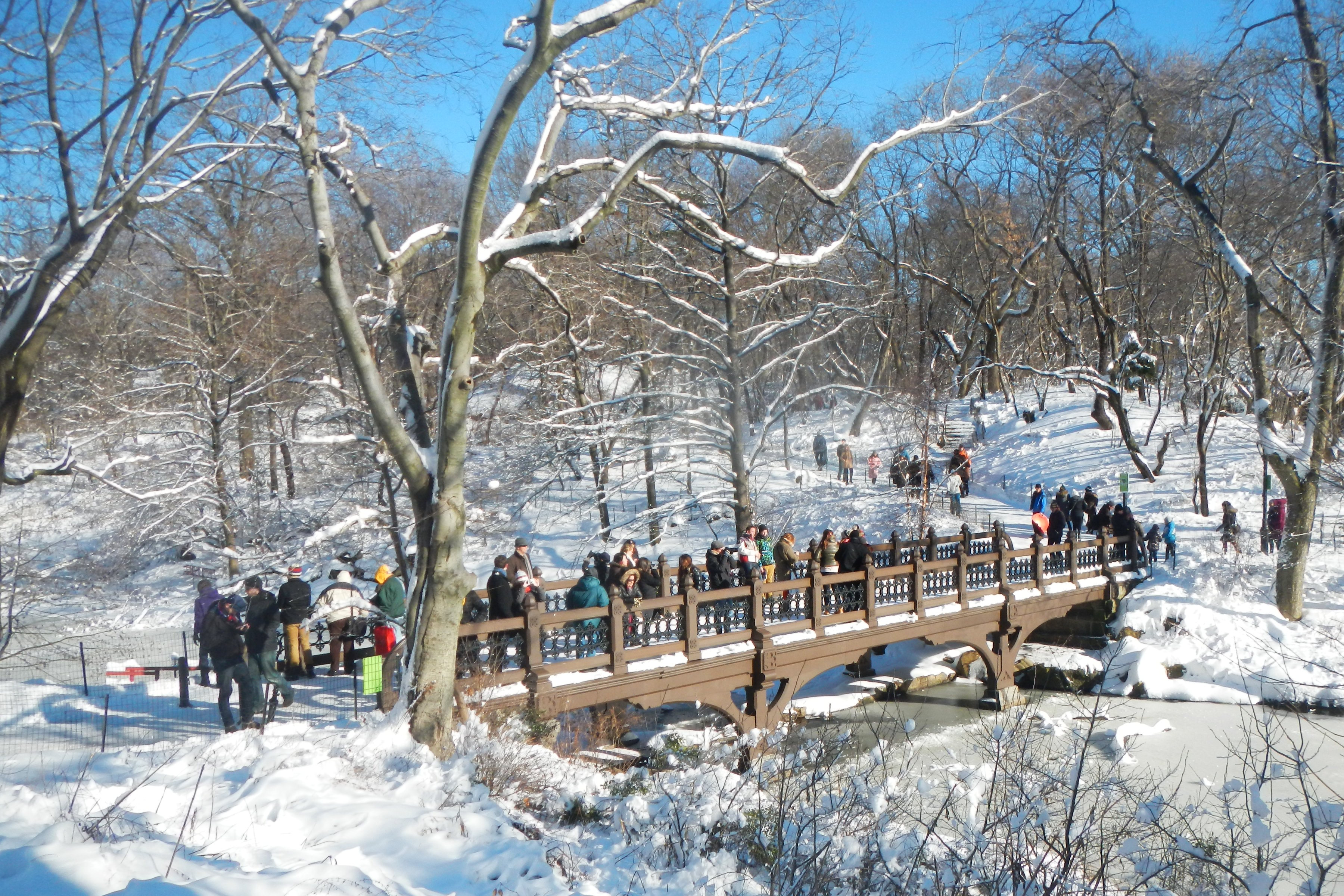 Looking northeast at Cabinet Bridge on a sunny day after snowfall.